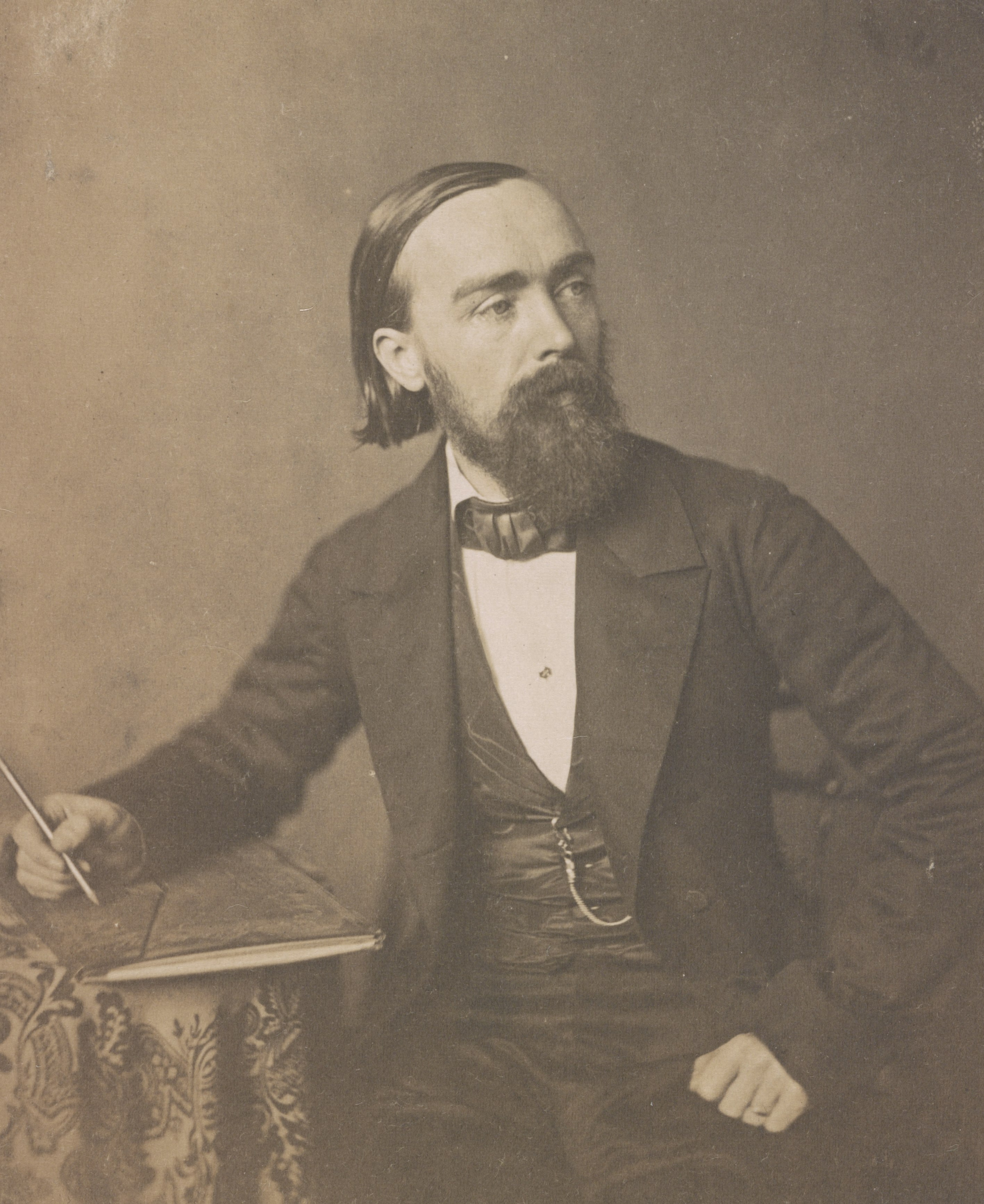 Title: Paul Weber, artist, three-quarter length studio portrait, seated, holding pencil in right hand on sheaf of paper on a table, facing right Abstract/medium: 1 photograph : salted paper print on card mount ; photo 15.5 x 12.6 cm, on mount 35.5 x 27.9 cm.